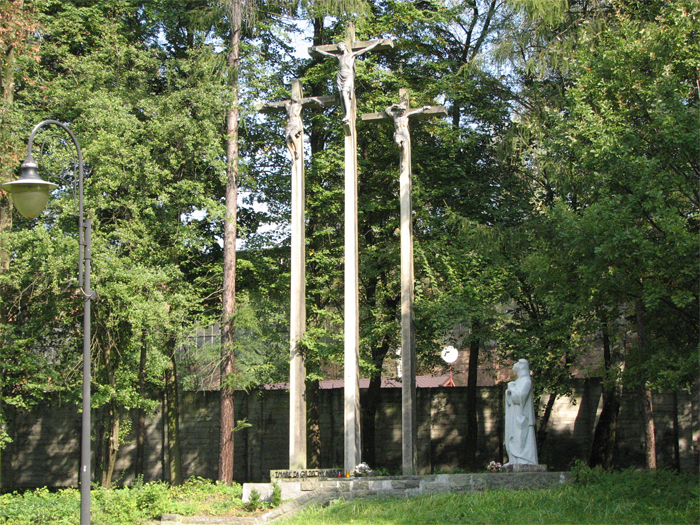 Calvary in Katowice Panewniki, Chapel of the Rosary - The fifth sorrowful mystery "Crucifixion". Completed in 1959.